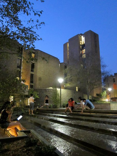 Morse College at Yale University